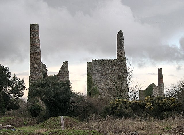 Engine houses at Wheal Peevor, a disused mine in Cornwall